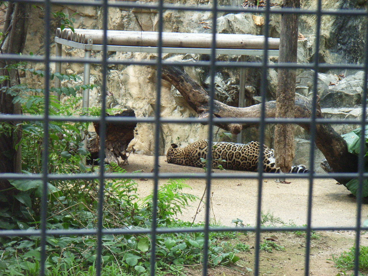 香港動植物公園 Hong Kong Zoological and Botanical Gardens NBG626